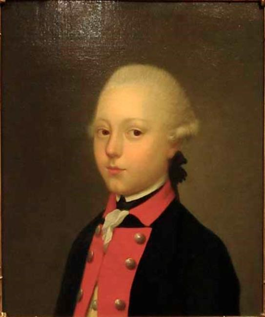 Portrait of Gijsbert Karel graaf Van Hogendorp (1762-1834)